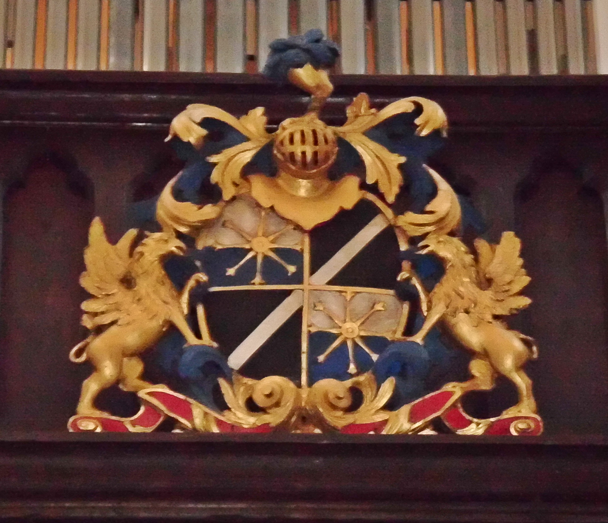 Kath. Kirche St. Laurentius Gundheim (Emporenbrüstung), Wappen des Adelsgeschlechtes von Greiffenclau